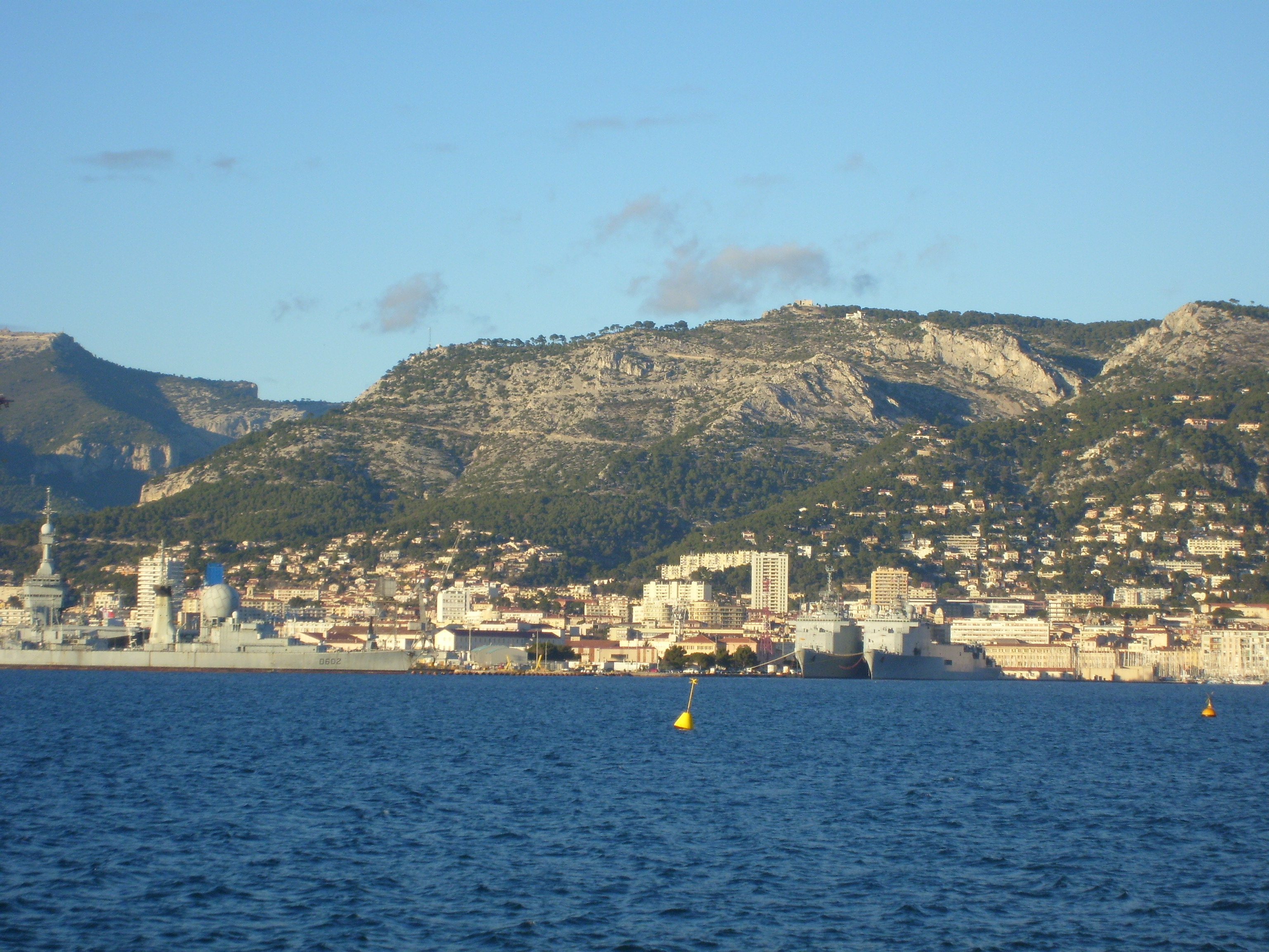 View of Toulon and Mt. Faron from the Rade